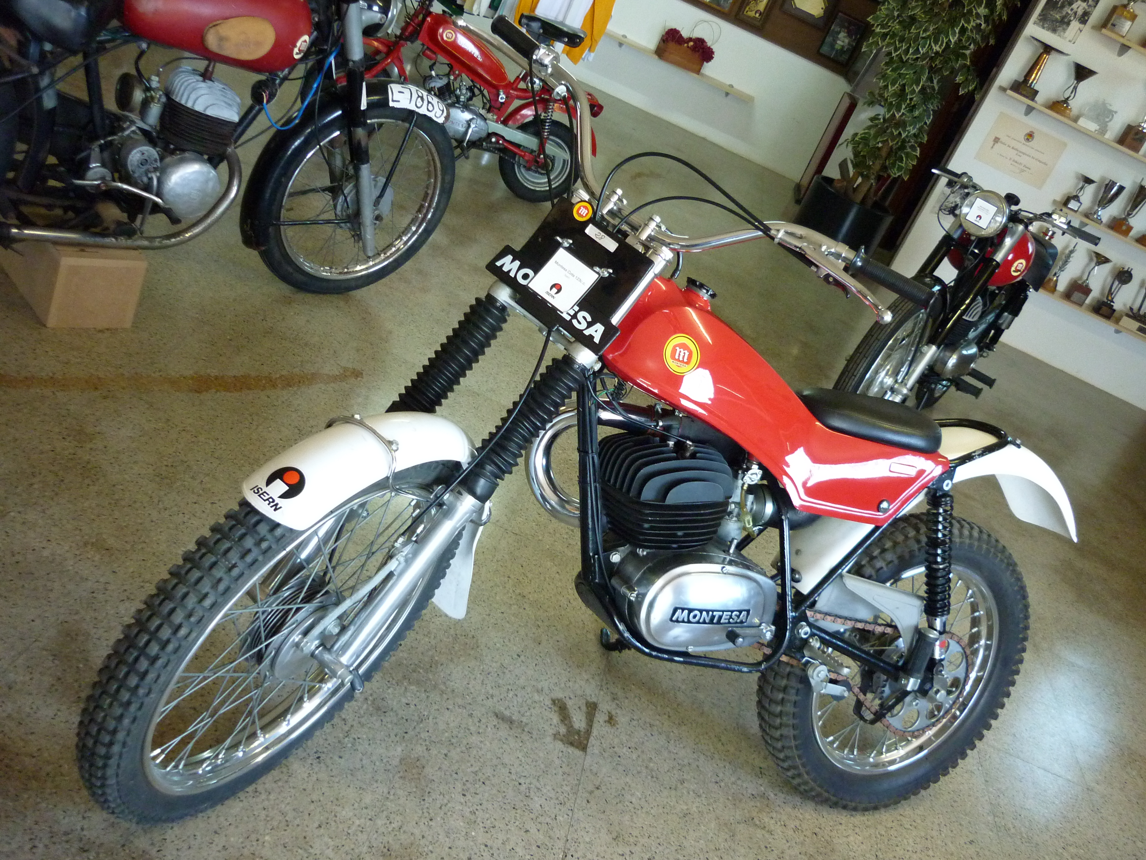 Montesa Cota 123, 123.7 cc (1974).Isern Motorcycle Museum, Mollet del Vallès (Catalonia).